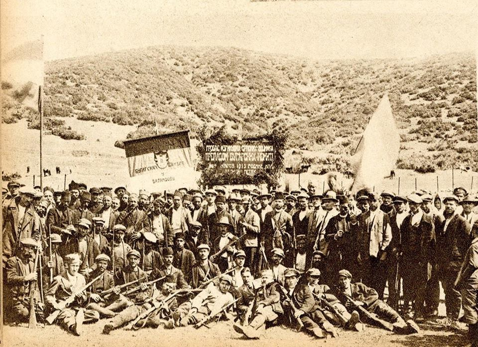 Association against Bulgarian Bandits, 1920s